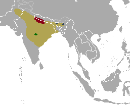 Historic distribution (yellow) and current distribution of the three subpecies: R. d. duvaucelii: red R. d. branderi: green R. d. ranjitsinhi: blue References: Duckworth, J.W., Samba Kumar, N., Chiranjibi Prasad Pokheral, Sagar Baral, H. & Timmins, R.J. 2008. Rucervus duvaucelii. In: IUCN 2011. IUCN Red List of Threatened Species. Version 2011.1. . Downloaded on 16 July 2011.